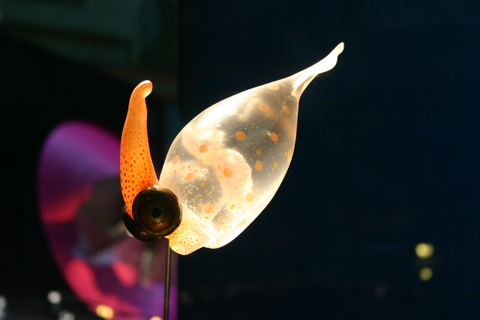 Teuthowenia megalops model(?) at the Smithsonian National Museum of Natural History